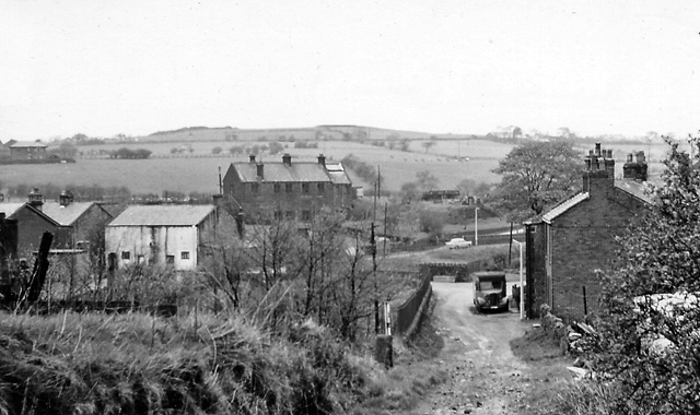 Site of Brinscall Station, near to Brinscall, Lancashire, Great Britain. View westward, across to site of the former station, which was behind the tall building in the middle; ex-Lancashire & Yorkshire/London & North Western (Lancashire Union) Joint line, Wigan - Chorley(left) - Blackburn (right). Passengers services ceased and Brinscall station was closed to passengers on 4/1/60, but the line remained open until 30/1/66, with goods ceasing here on 25/1/65.